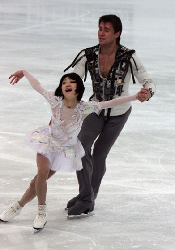 Yuko KAWAGUCHI and Alexander SMIRNOV (RUS) at the 2009 European Figure Skating Championships